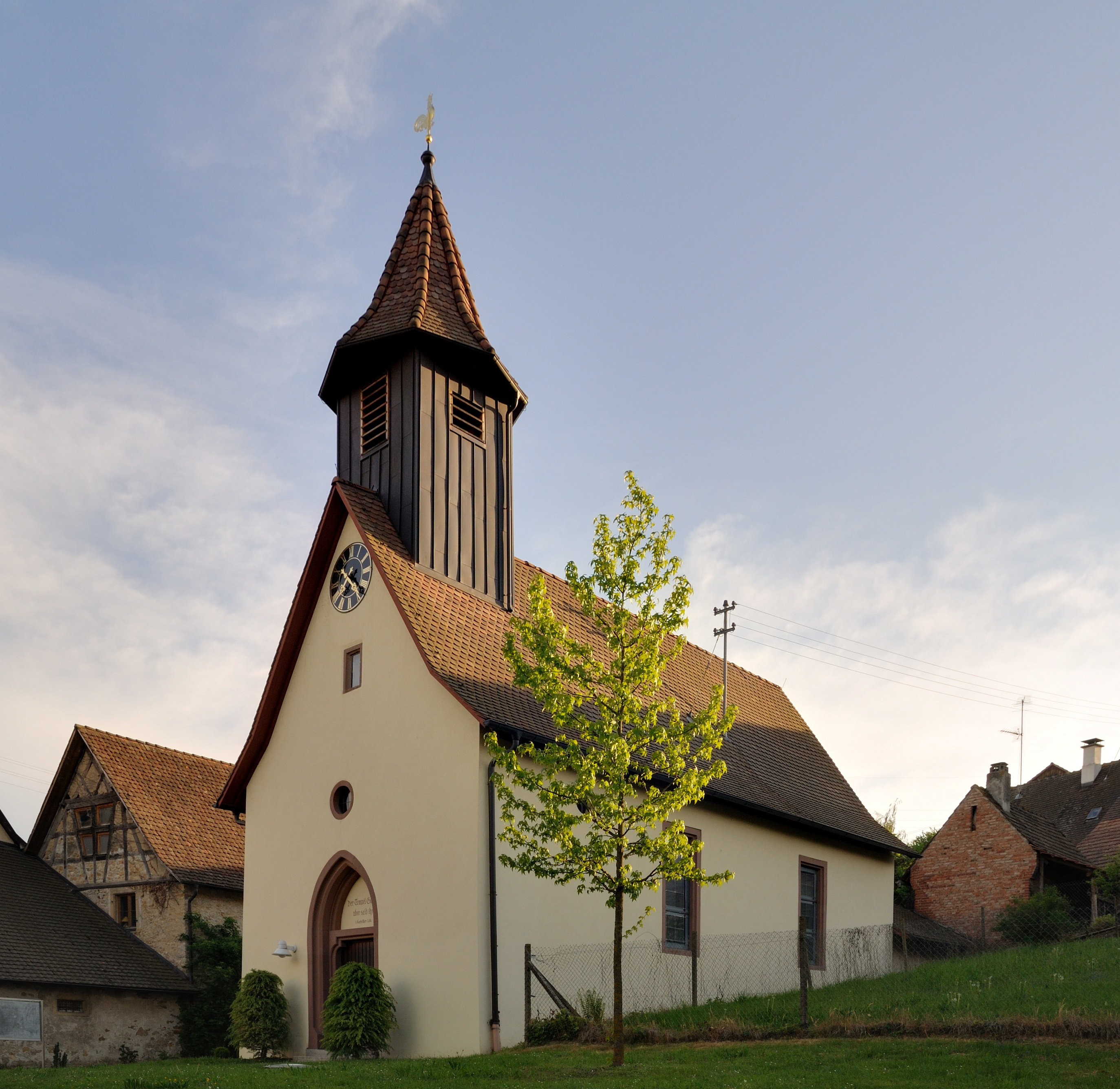 Welmlingen: Protestant Church